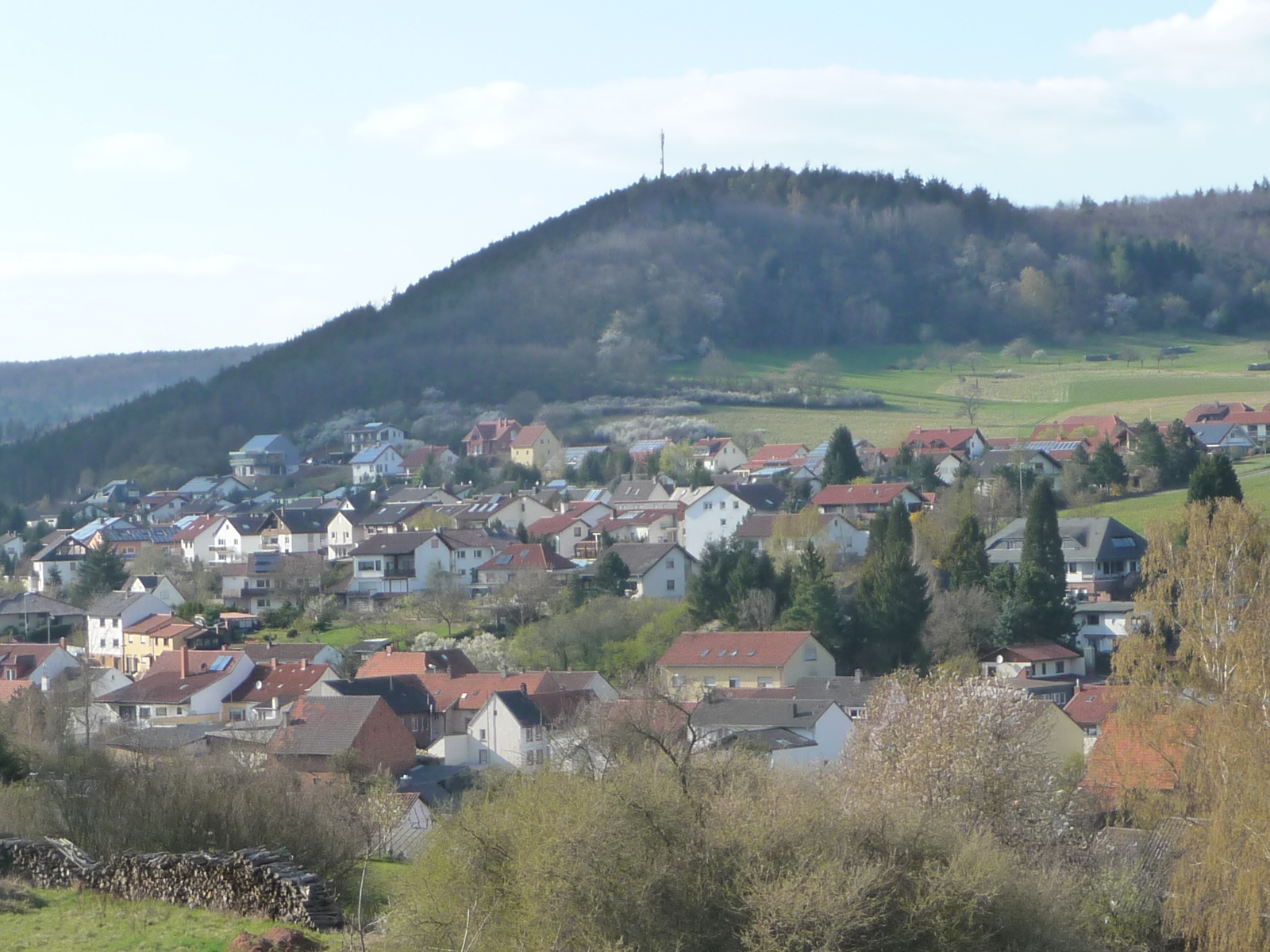 Ramsen (Pfalz)